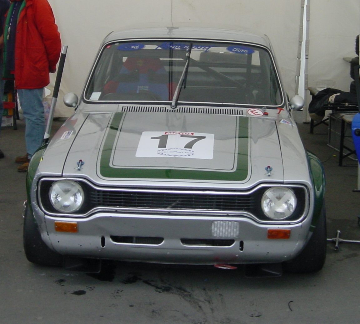 Ford Escort BDG in paddock at Classic Endurance Racing (CER), Nuerburgring, Germany 2007